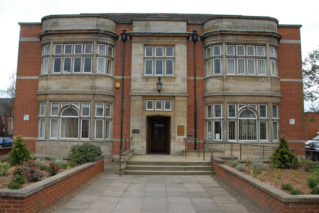 Manor House, 57 Lincoln Road, Peterborough. Former headquarters of the Peterborough Building Society. Two-storey building with brick with stone dressings and mansard roof. Symmetrical frontage with double stone bay and mullion windows around a central door. Entrance piers with decorative lights and ornate gates. Listed in the Peterborough Local Plan, Appendix VI as a building of local importance.